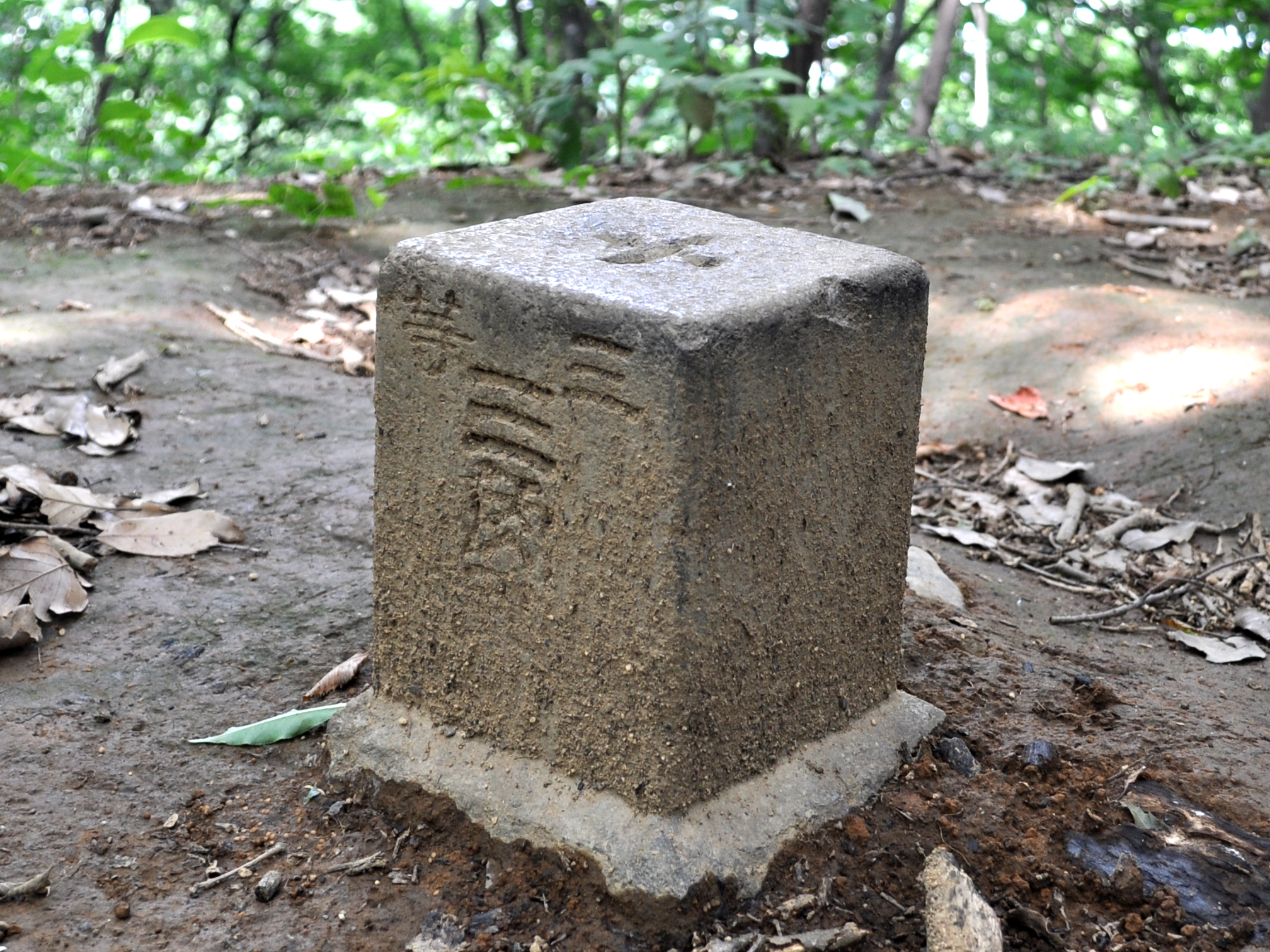 3rd class triangulation point in Shiroyama Park in Inagi, Tokyo, Japan.